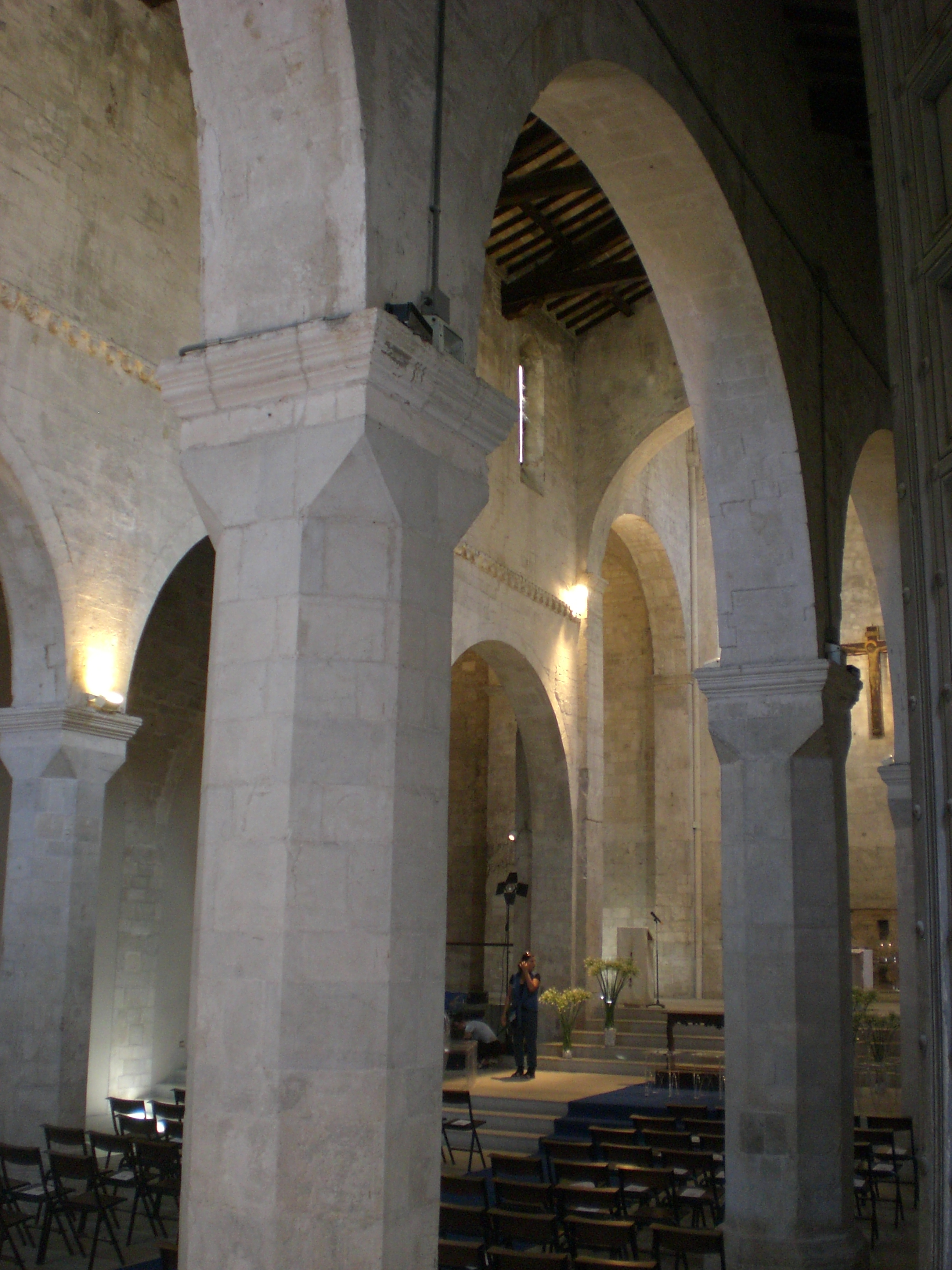 Ancona, St. Mary of the Square